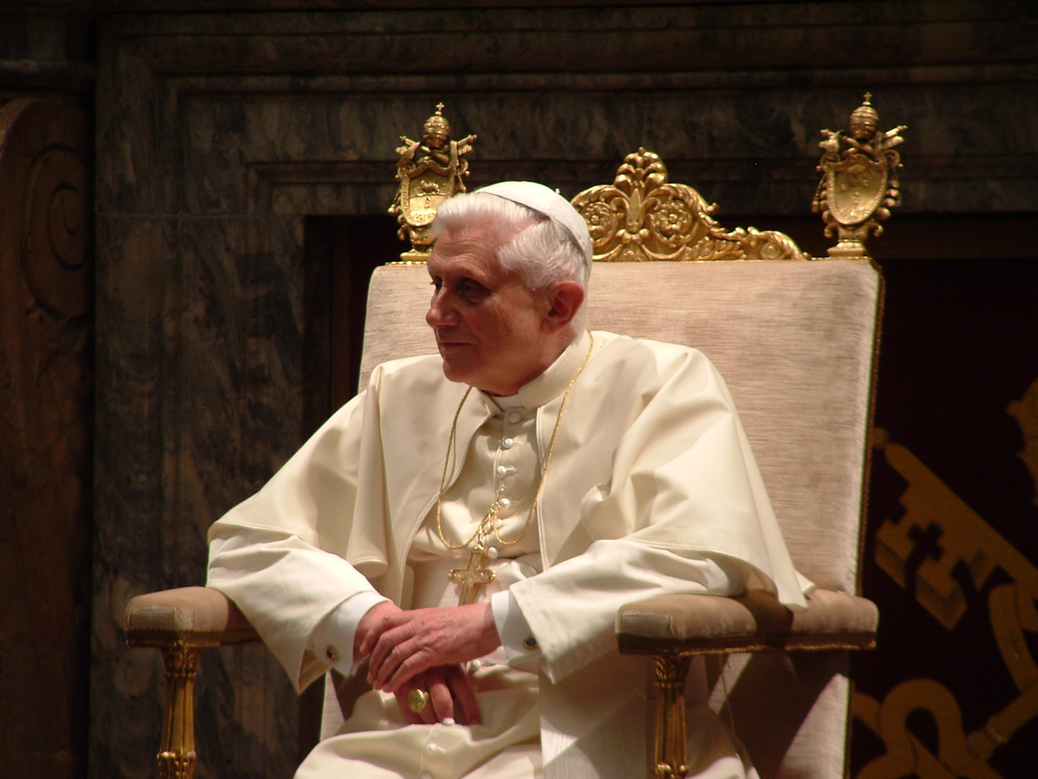 Pope Benedictus XVI at a private audience (January 20, 2006)